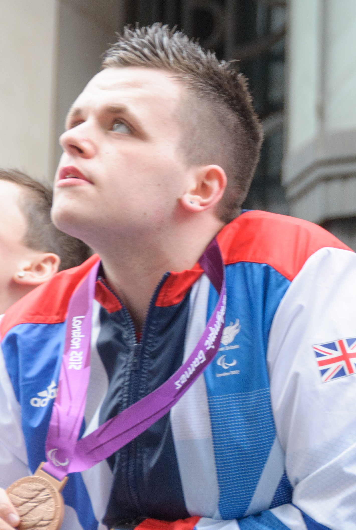 Aaron McKibbin - Great Britain Paralympic bronze medallist table tennis player at the 'Our Greatest Team Parade' after the 2012 Summer Paralympics.